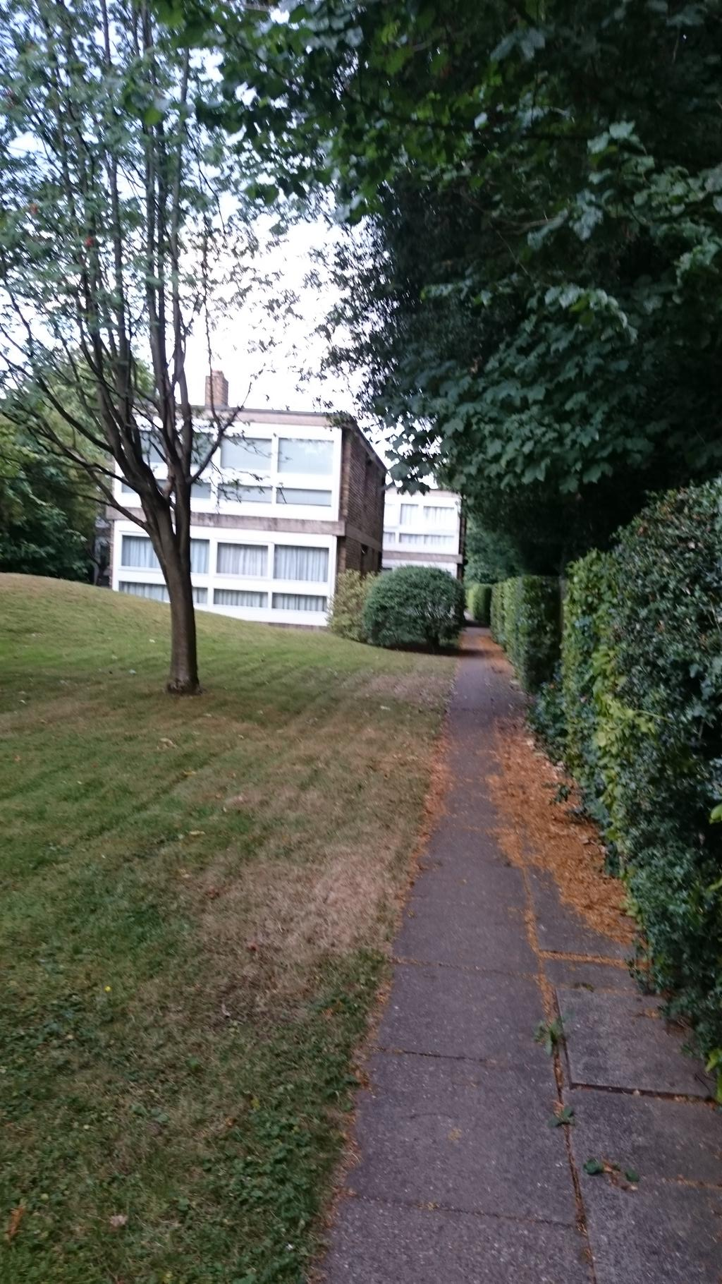 Langham House Close, Ham Common. One of two two-storey, six-apartment blocks designed by James Gowan in 1956 and built 1957-58